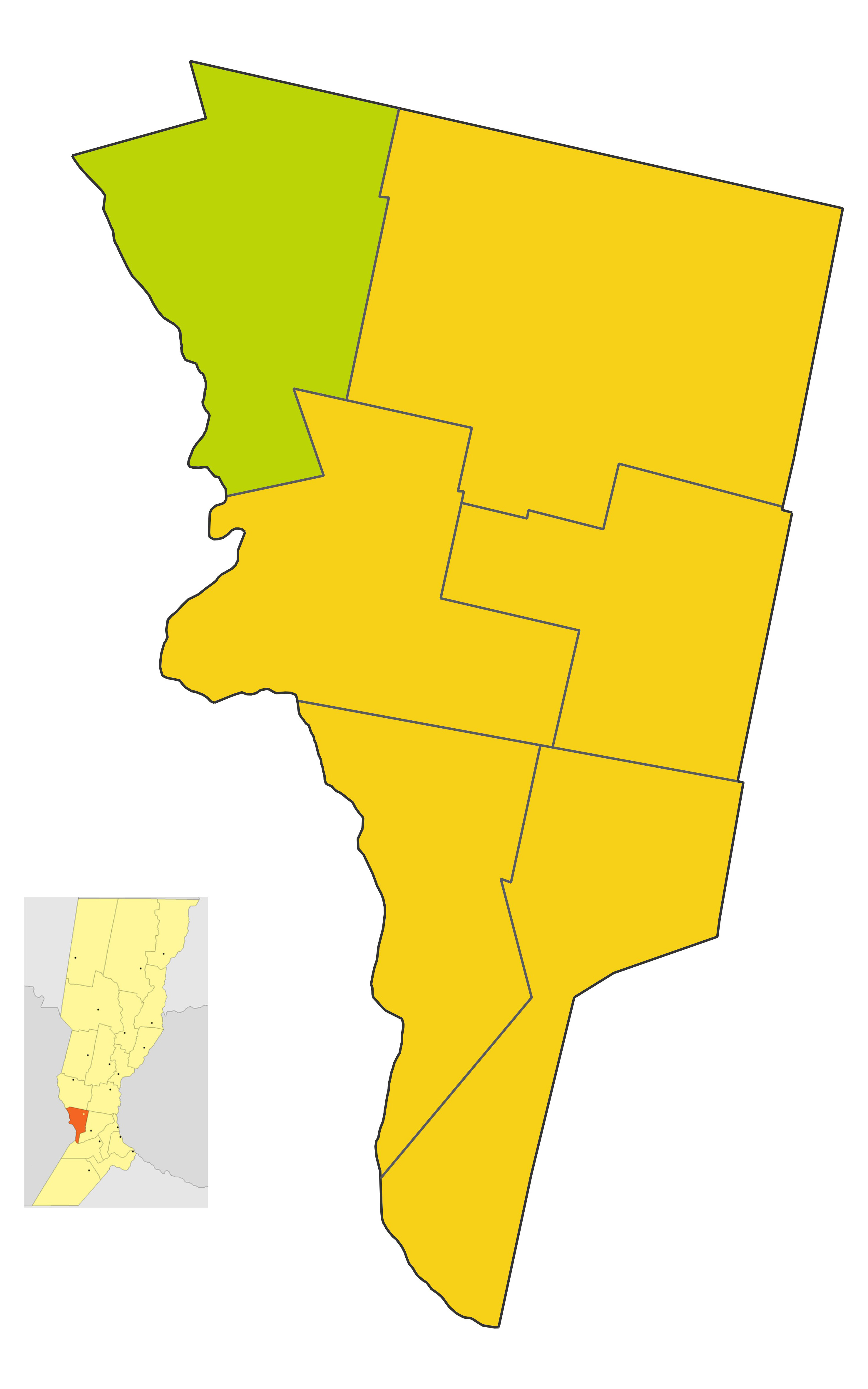 Map of the comuna de Bouquet, in Belgrano department, Santa Fe province, Argentina